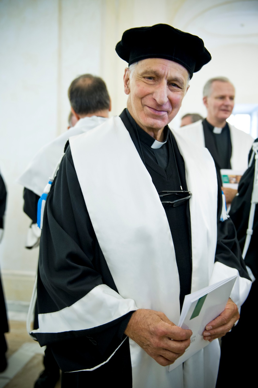 Prof. Miguel Ángel Tábet